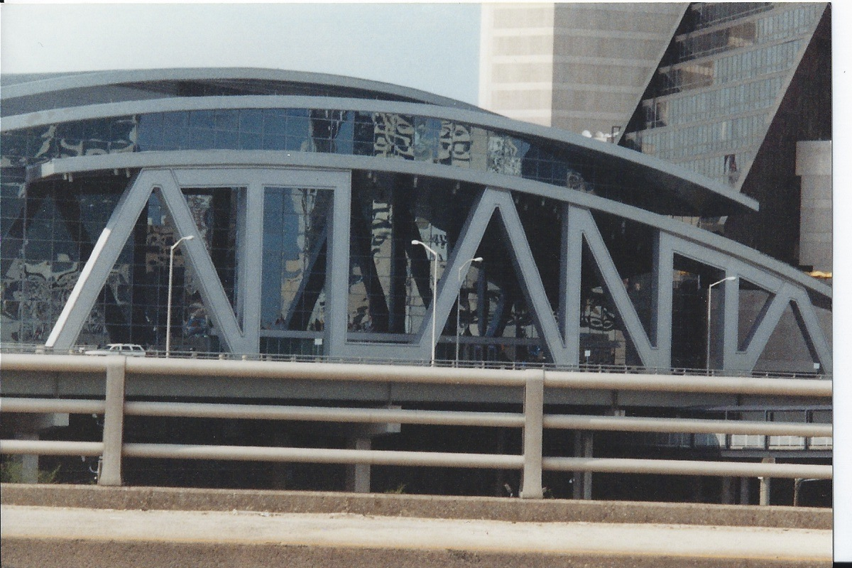 I took this picture of the Philips Arena before the game. It is located in downtown Atlanta and the home of the Atlanta Hawks and the WNBS’s Atlanta Dream.